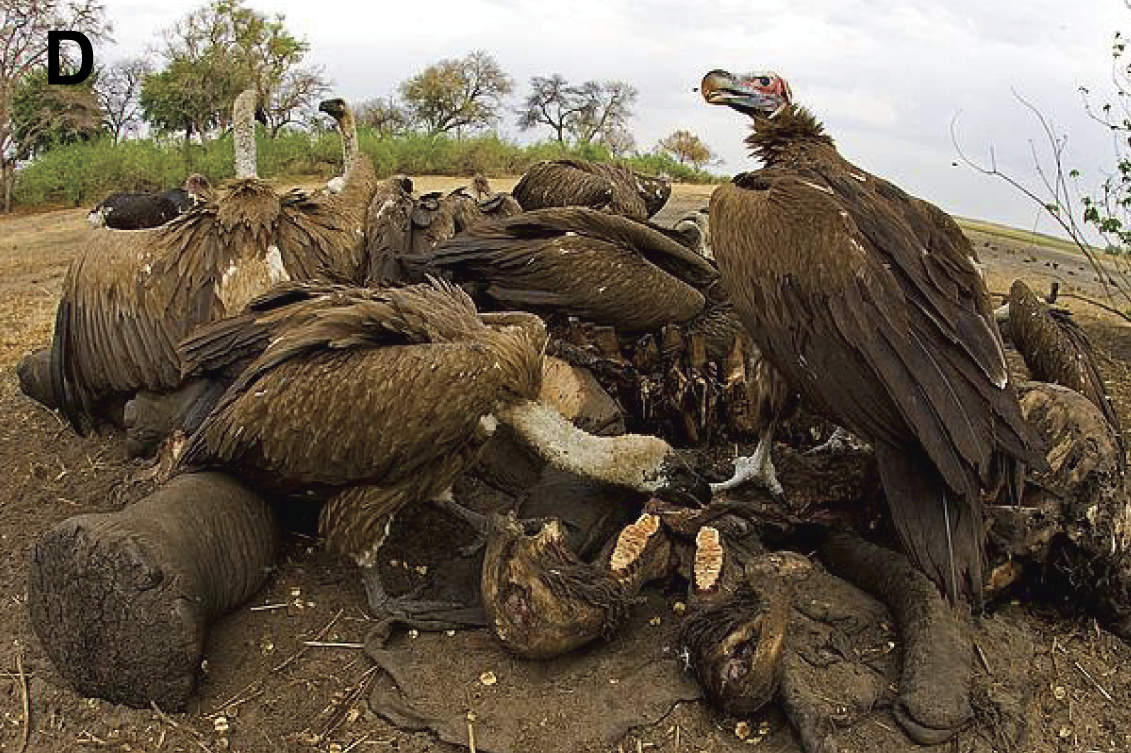 A lappet faced vulture (Torgos tracheliotos) and white backed vultures (Gyps africanus) scavenge on an elephant kill (Photo: Chris Fallows).